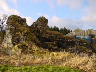 Nigel Woolford